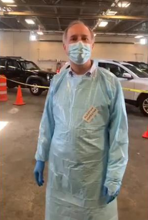 After telling everyone that it was "safe", to go out and vote, He puts on a surgical mask and gown with gloves